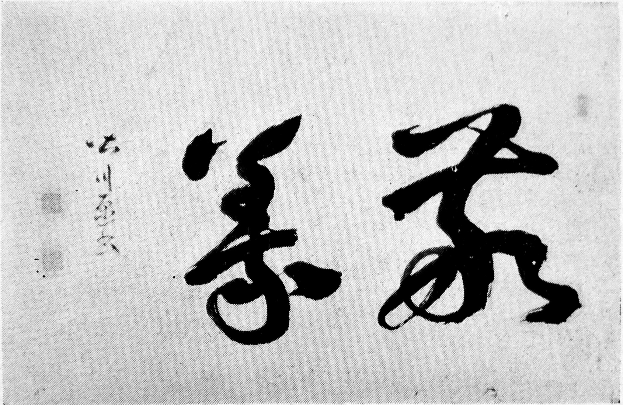 Calligraphy of Minagawa_Kien(1735−1807)